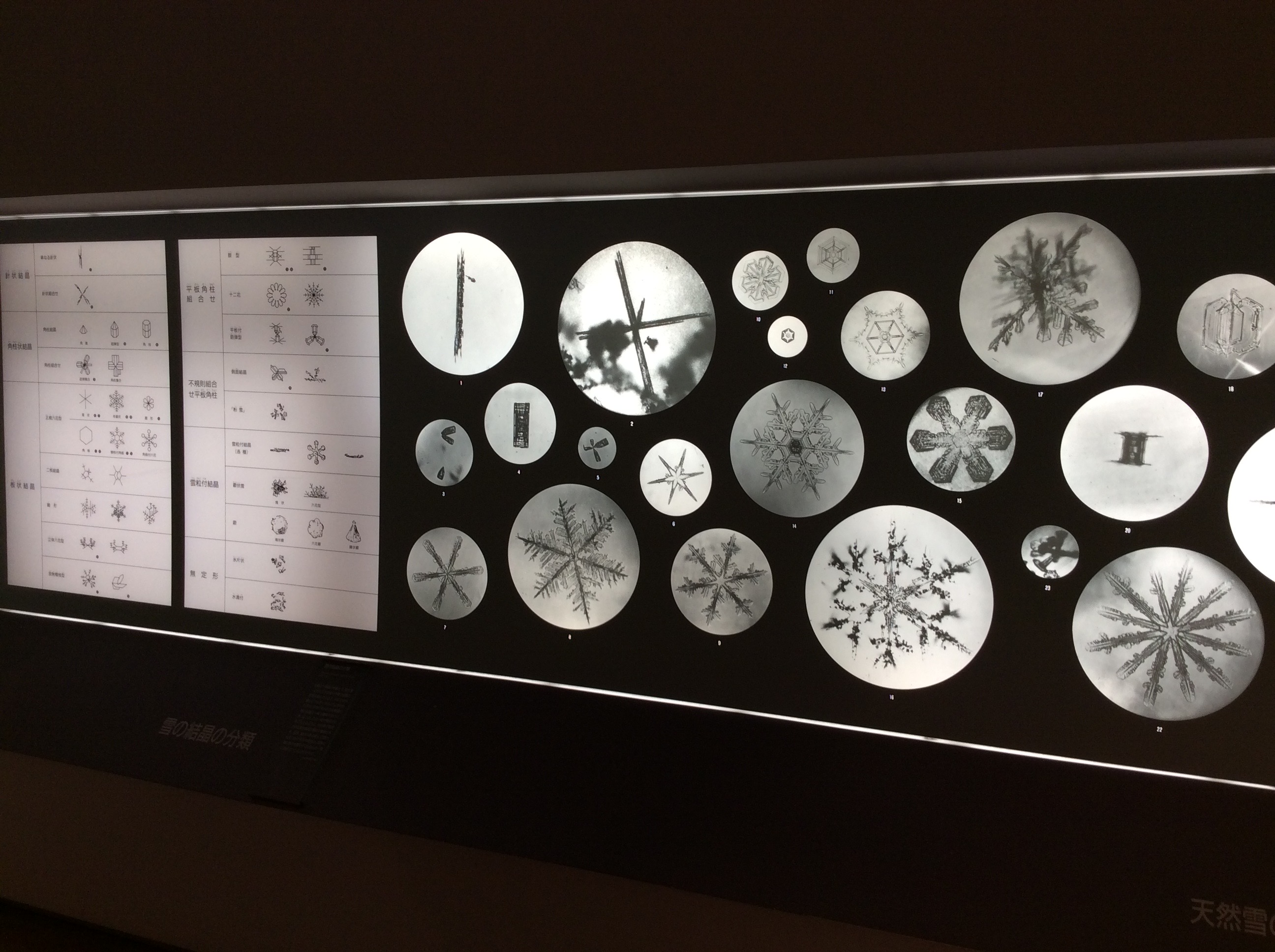 Nakaya Ukichiro Museum of Snow and Ice. Showing original photographs of snowflake taken by Nakaya. Photographed with permission